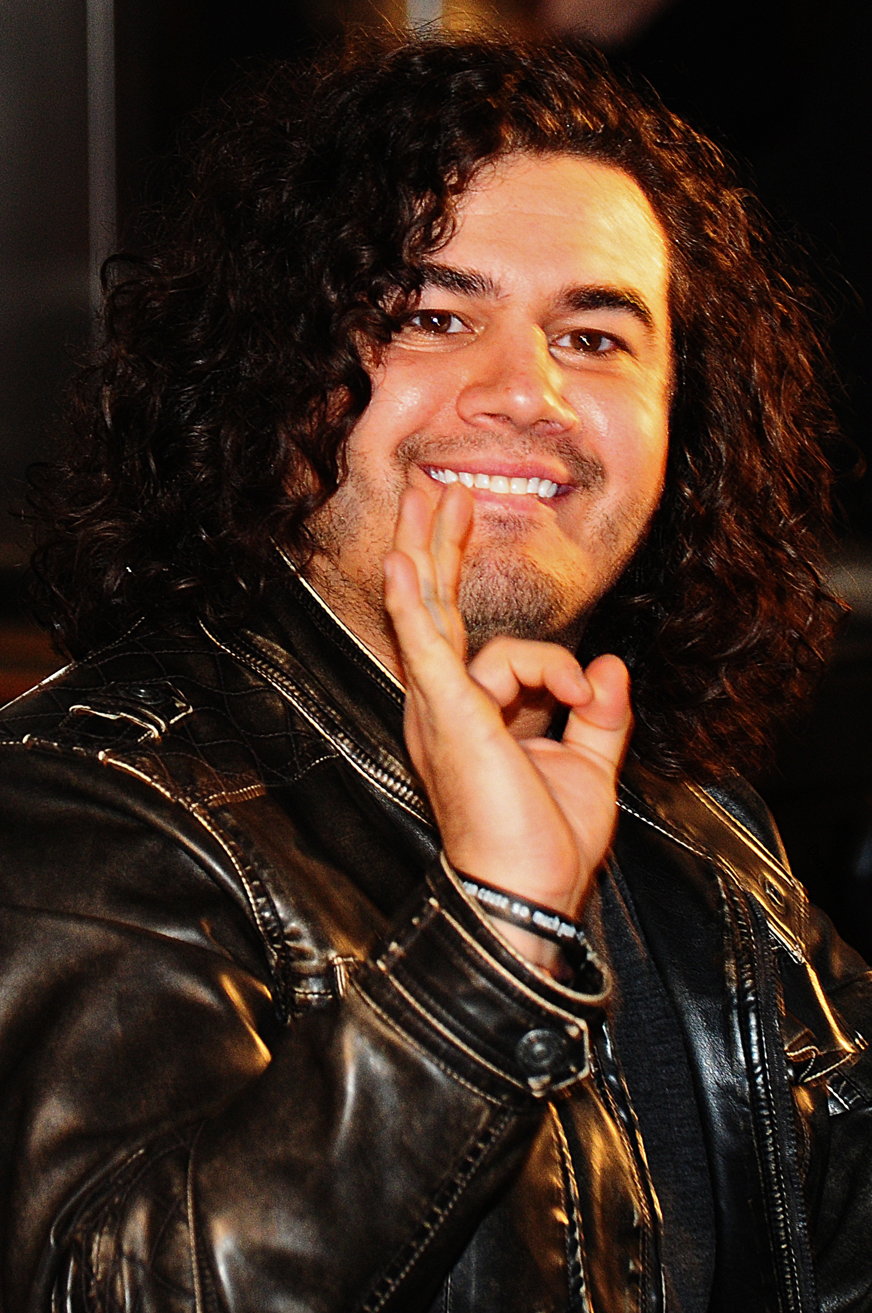 Chris visit and sings in a shoppingcenter in Norrköping, Sweden.